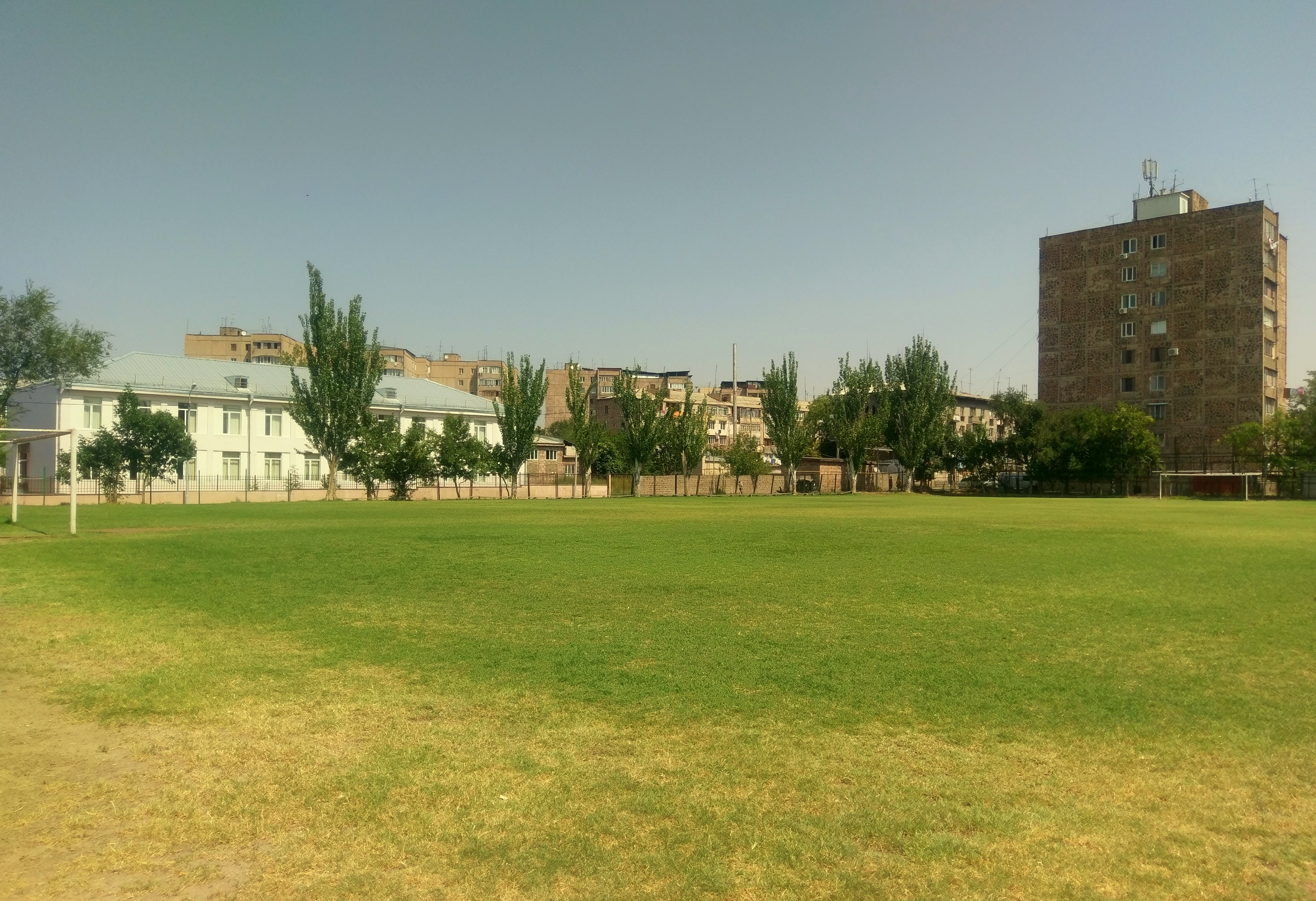 Junior Sport football school, formerly known as Shengavit football school, Yerevan.